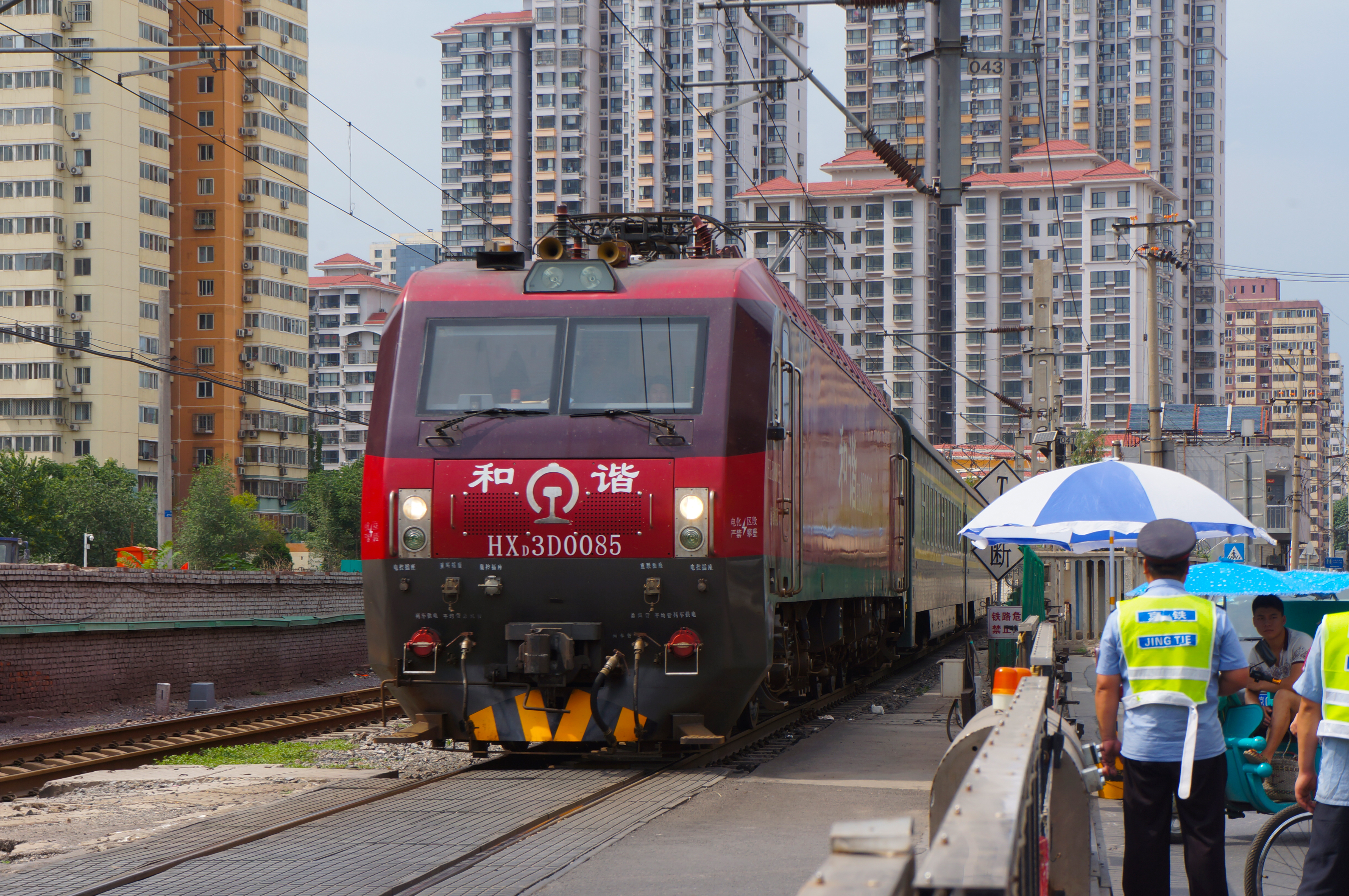 201606 Z59 passes Shoupakou